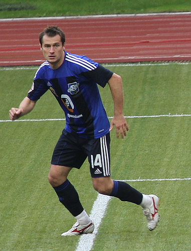 Dmitry Kirichenko